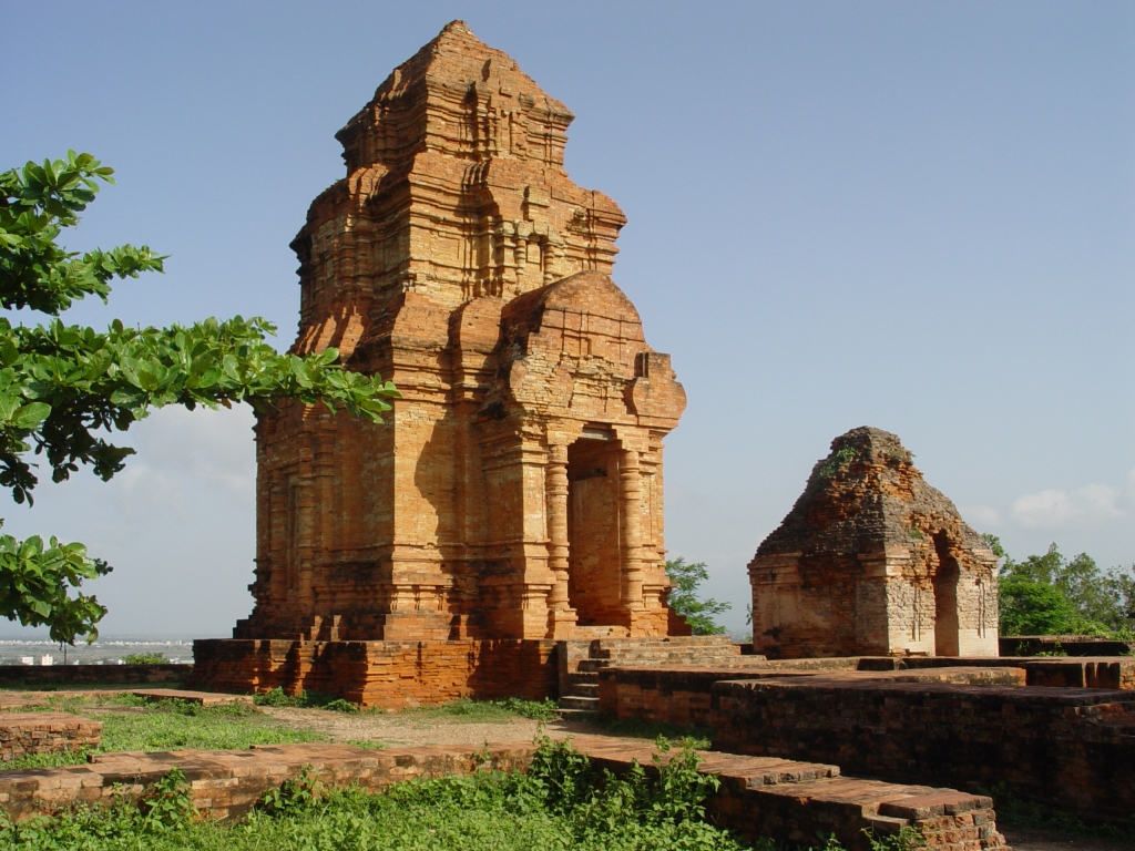 The Thap Poshaknu Cham Towers near Mui Ne and over-looking the city of Phan Thiet, South-Central Viet Nam. A more modern Buddhist Pagoda is also on this hill.